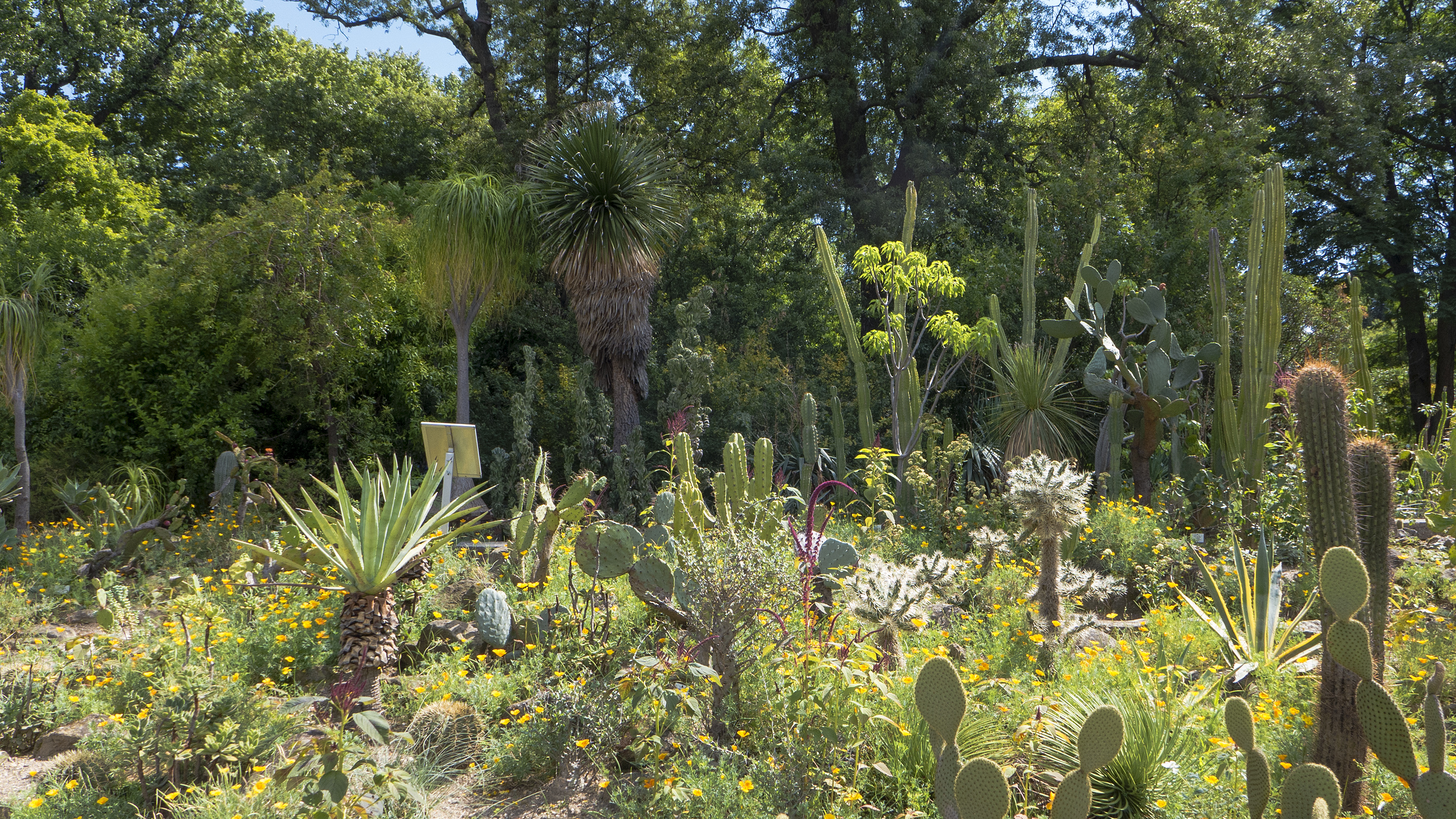 Botanical Garden of the University of Vienna in Vienna 3